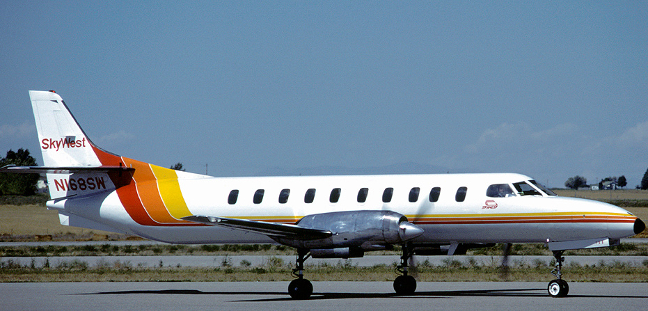 a SkyWest Airlines Swearingen SA-226TC Metro II at Idaho Falls Regional Airport